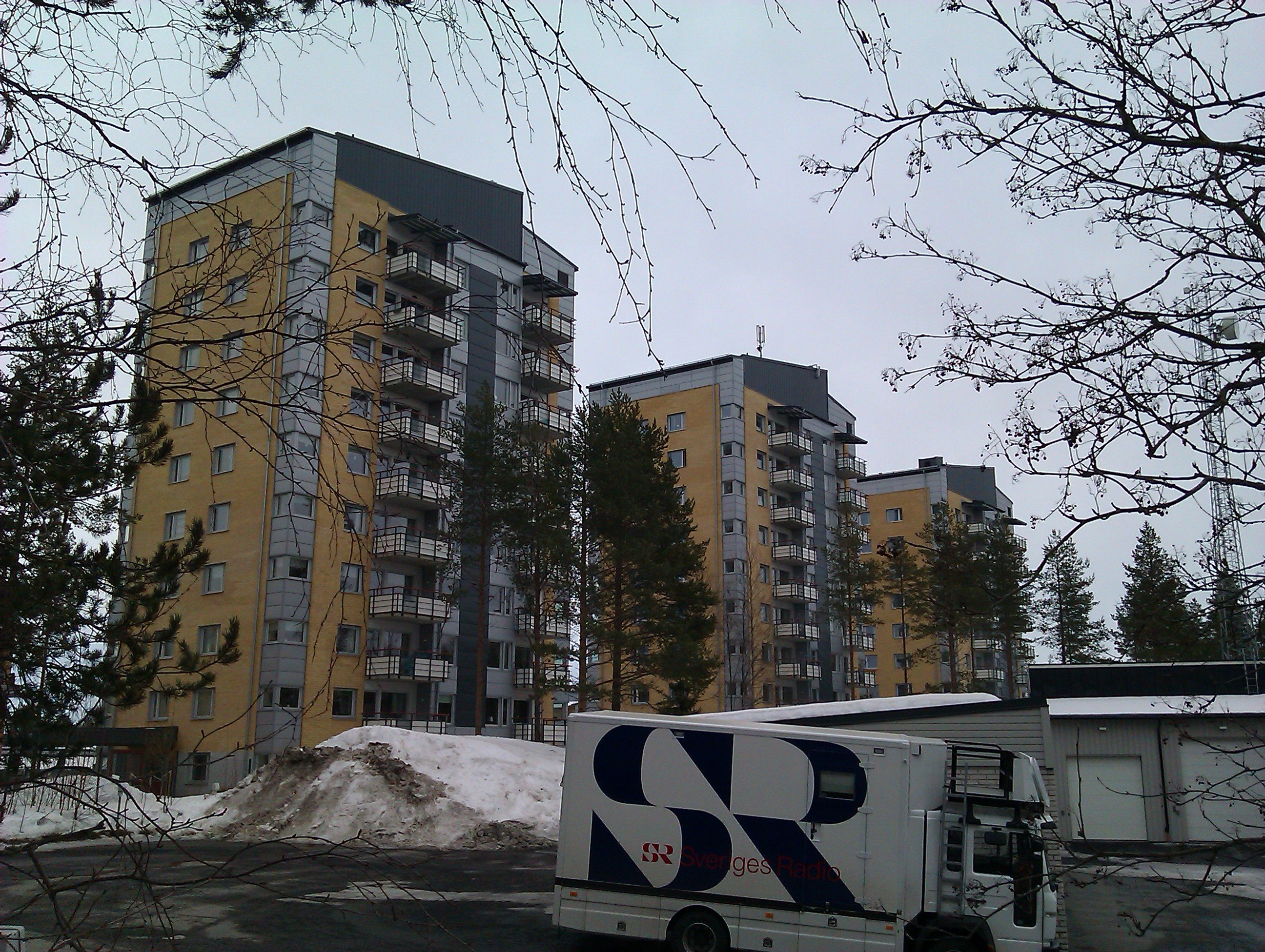 Buildings on the residential area Marielund in Umeå, Sweden.